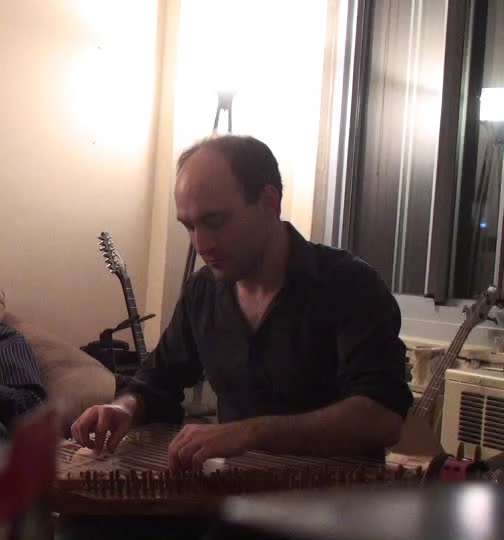 Carmine Guida plays at an informal musical collaboration.